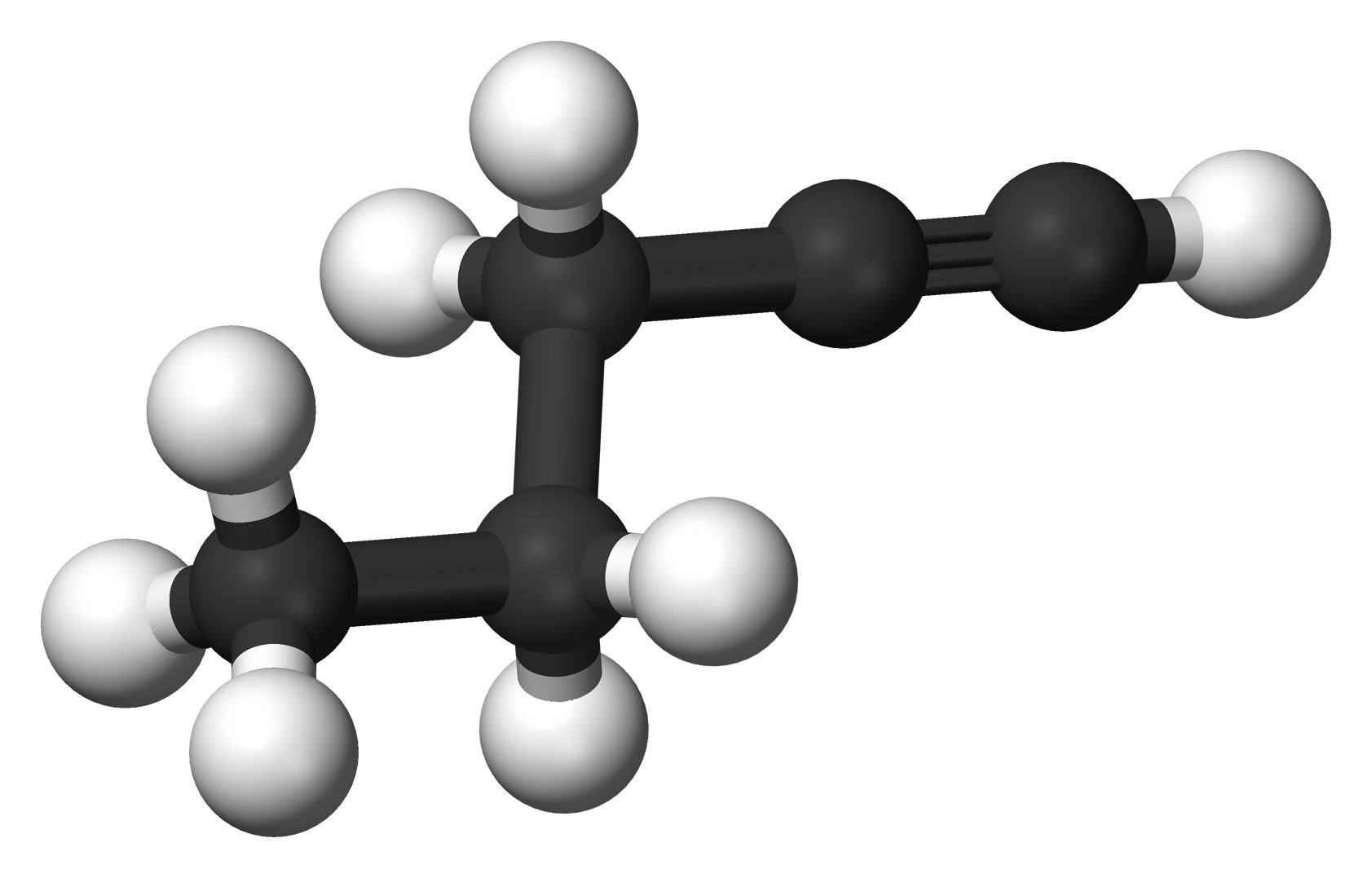 Ball-and-stick model of the 1-pentyne molecule (also known as propylacetylene), a five-carbon terminal alkyne.